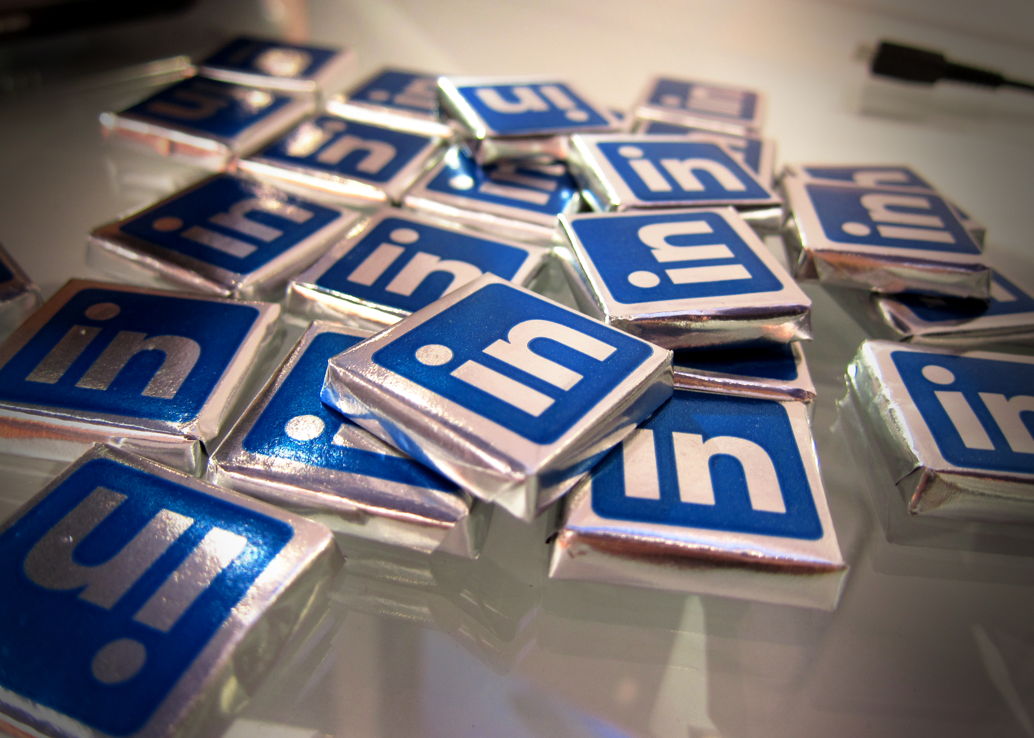 Love this photo? Cool! It's yours to use for free. Here's what I ask - please, kindly credit me (Nan Palmero) with the photo and link back here so others can use it too. This photo has been used by: The New Yorker - and Forbes - and Chris Brogan and Justin Levy's New Marketing Labs - and Cnet Australia - and CIO UK - and Guardian UK - and Mashable - and The Week - and Slashgear